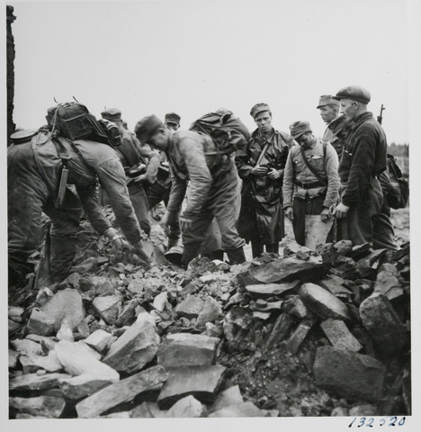 Civilians killed by Soviet partisans in Finland, village of Viiangi 7.7.1943